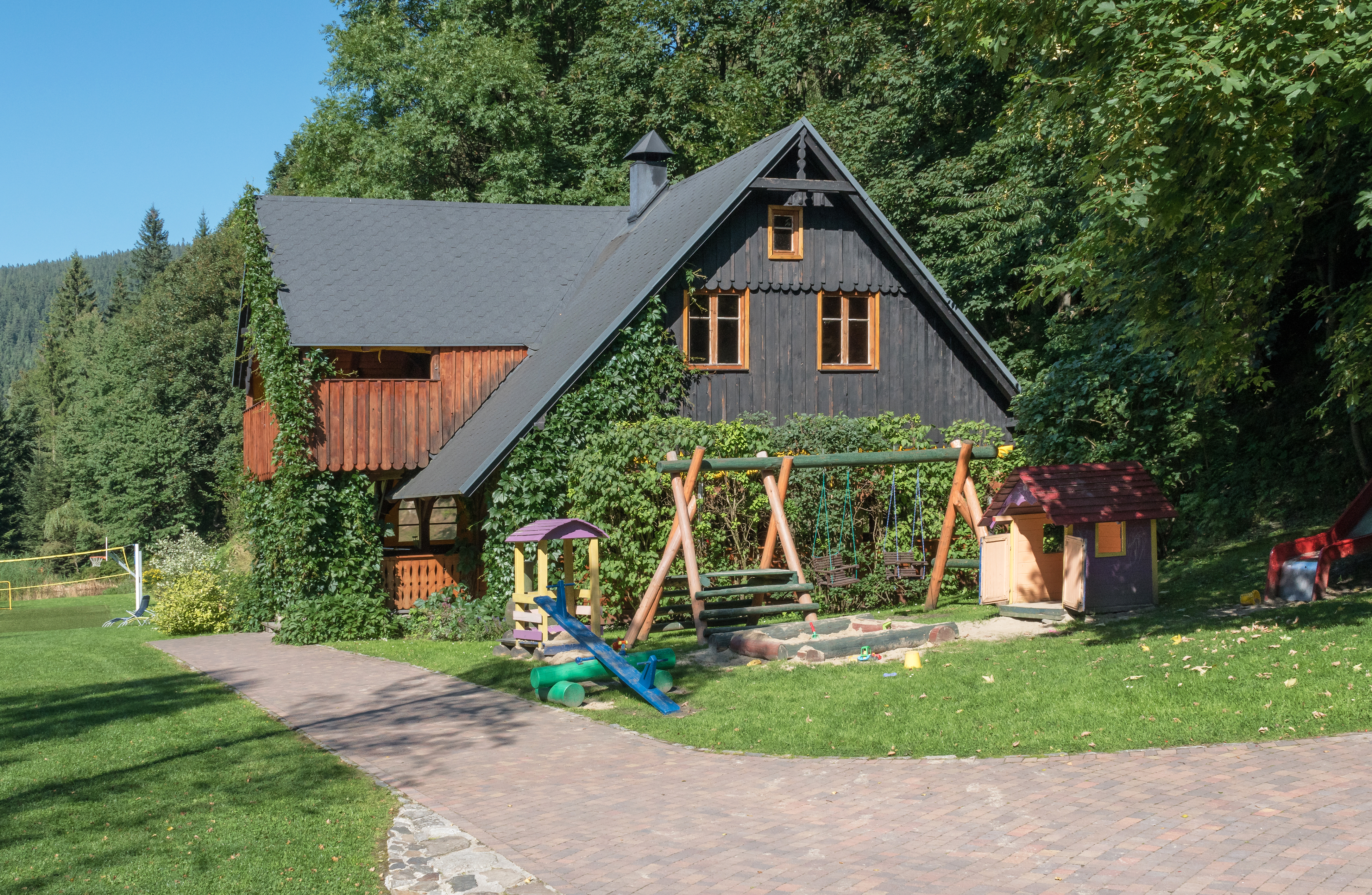 Grill house in Bielice